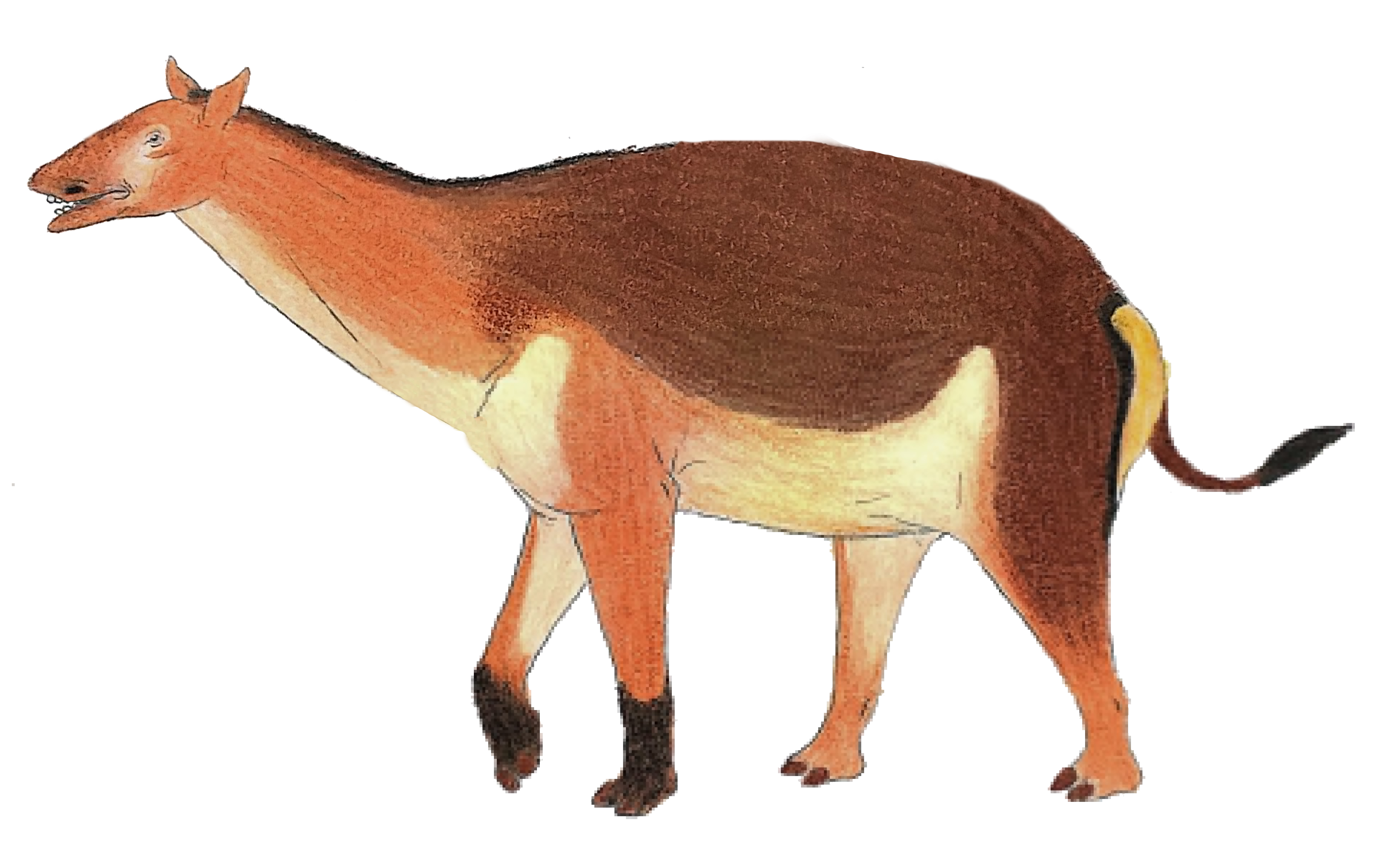 Life reconstruction of Macrauchenia patachonica